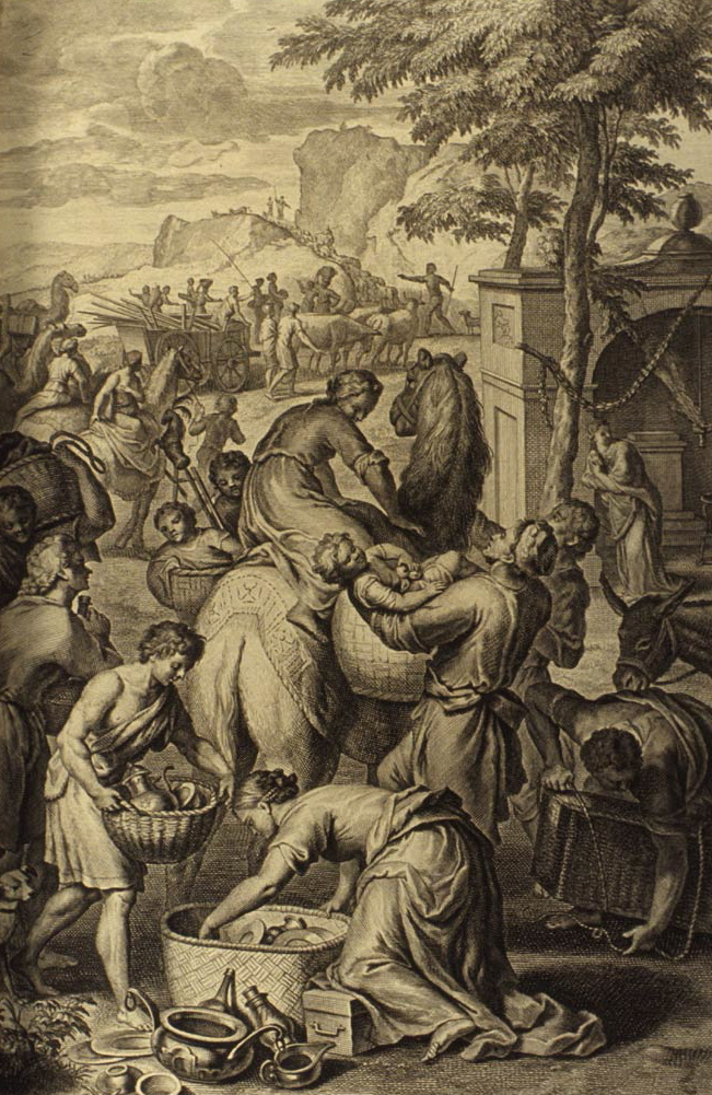 Jacob flies away from Laban, as in Genesis 31:20-21, "And Jacob stole away unawares to Laban the Syrian, in that he told him not that he fled. So he fled with all that he had; and he rose up, and passed over the river, and set his face toward the mount Gilead."; illustration from the 1728 Figures de la Bible; illustrated by Gerard Hoet (1648-1733) and others, and published by P. de Hondt in The Hague; image courtesy Bizzell Bible Collection, University of Oklahoma Libraries